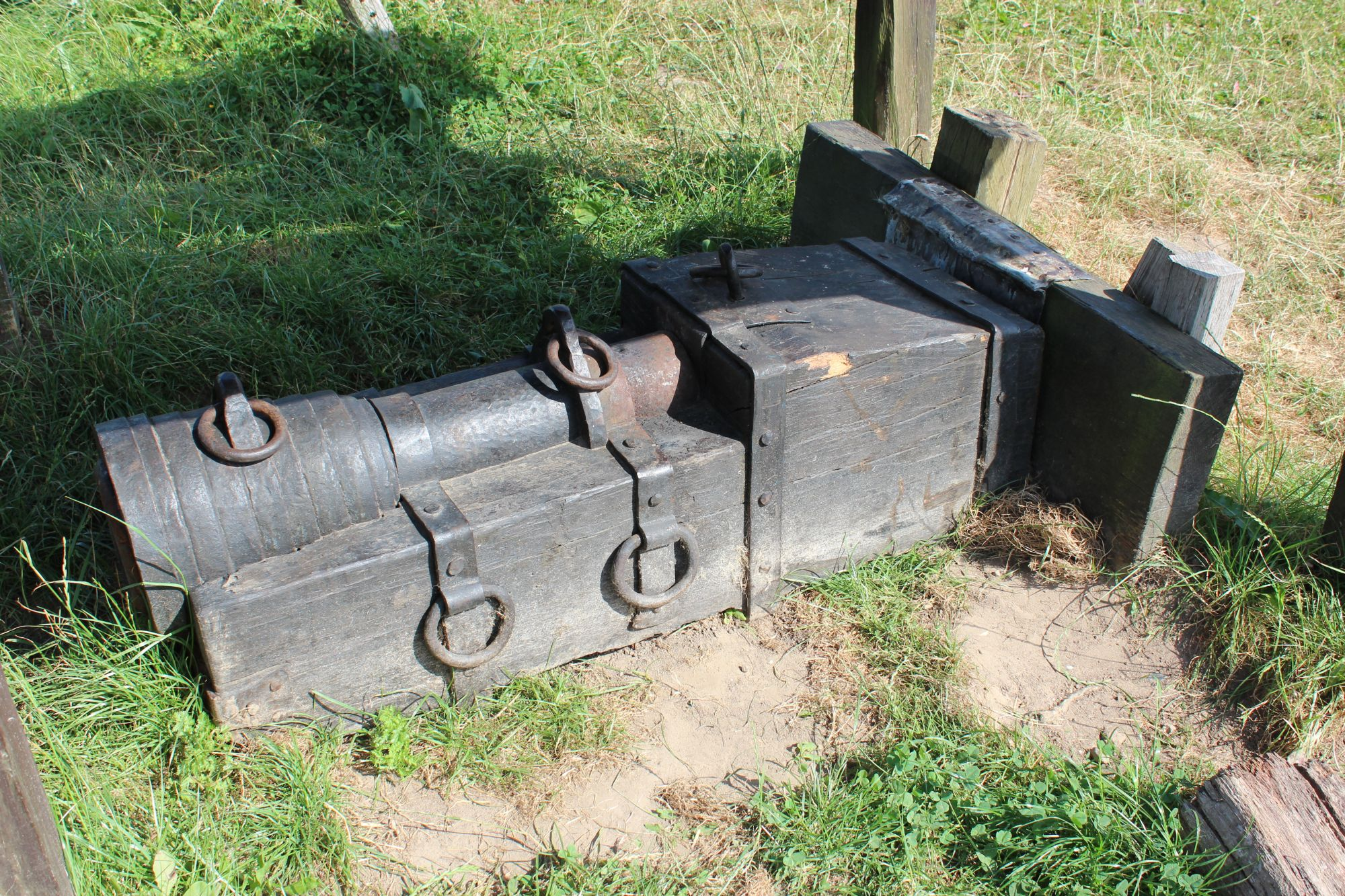 Cannon at Middelaldercentret (Middle Ages Centret) in Denmark